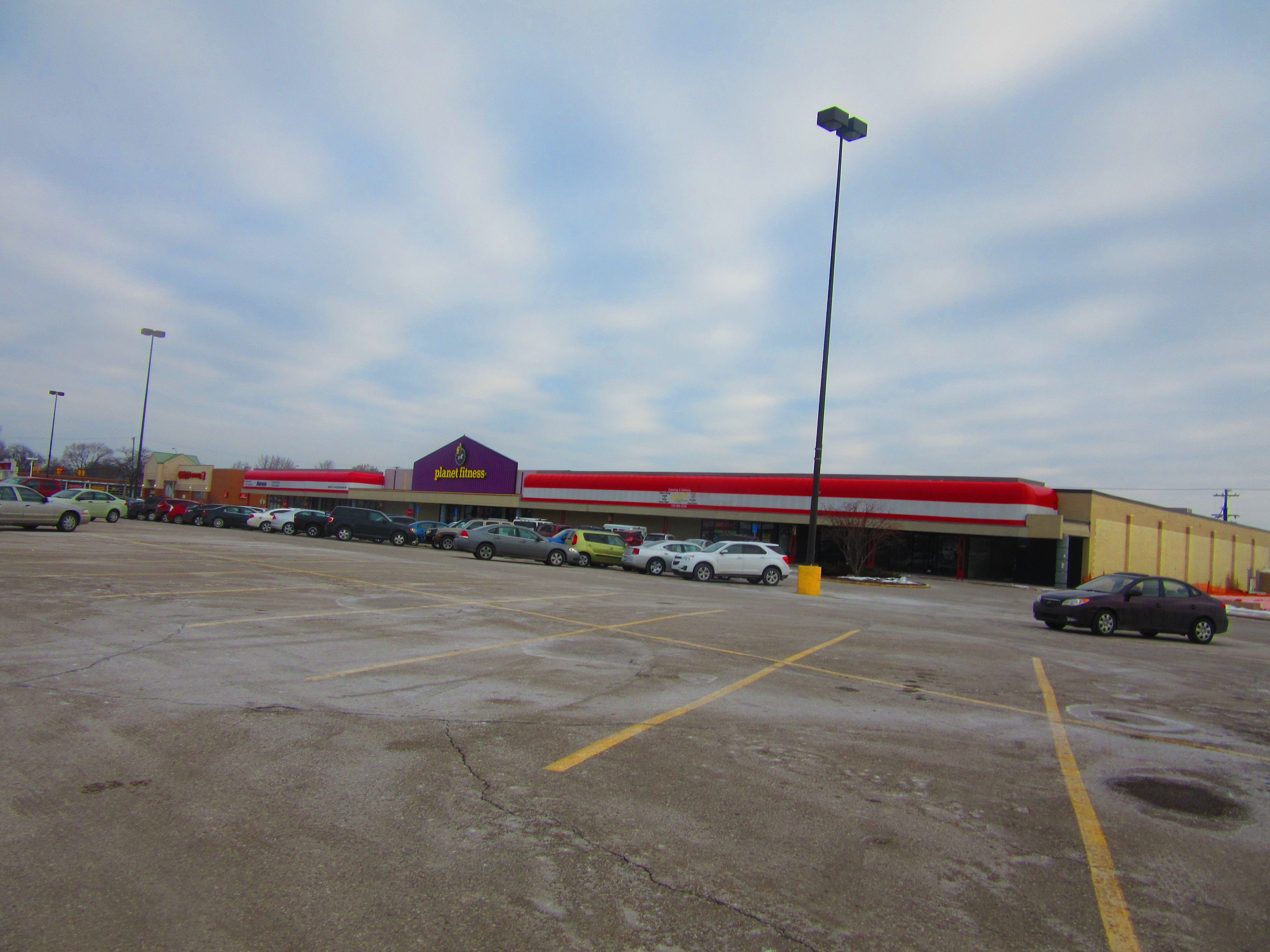 Southgate Shopping Center, taken by me on January 31st, 2015.